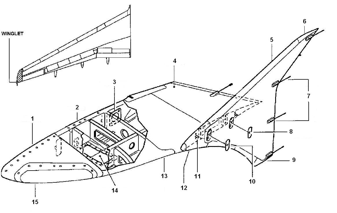 Winglet A-319 schematic: 1–Skin; 2–Rib; 3–cover; 4–skin; 5–Top skin; 6–Top end part; 7–Static discharger; 8-Access panel; 9–Bottom end part; 10-Access panel; 11–Pin; 12-Aerodynamic skin; 13–Skin; 14-Access panel; 15-Navigation light